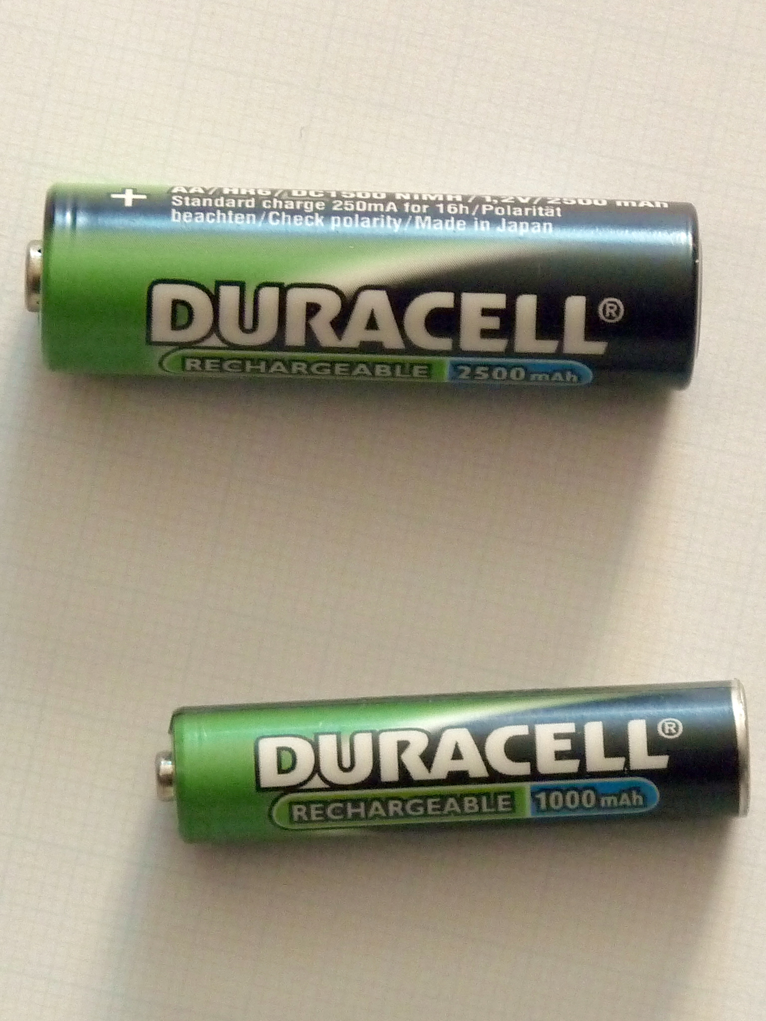 Duracell batteries